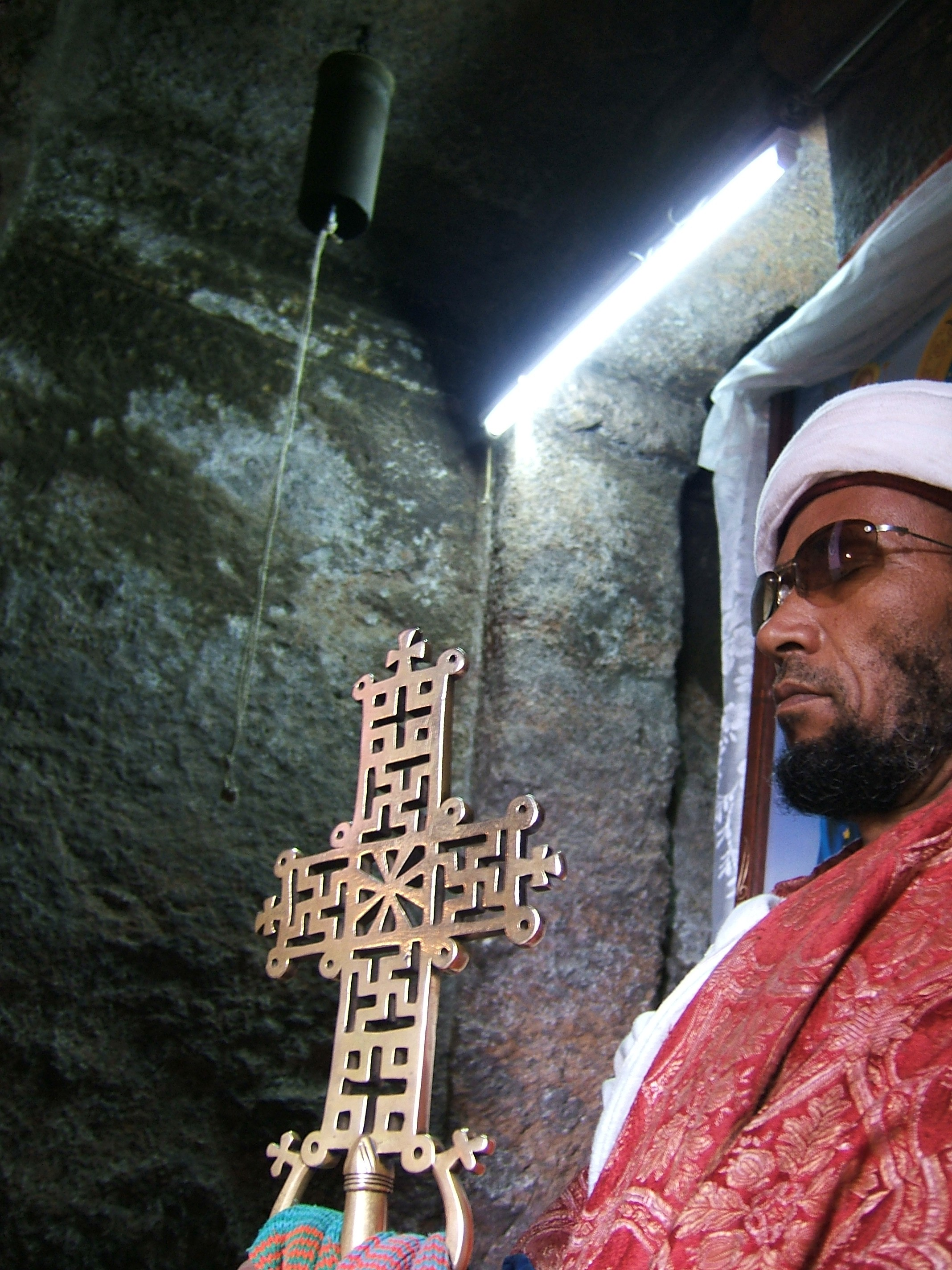 Priest with processional cross. The bell in the background is made from a russian shell casing.